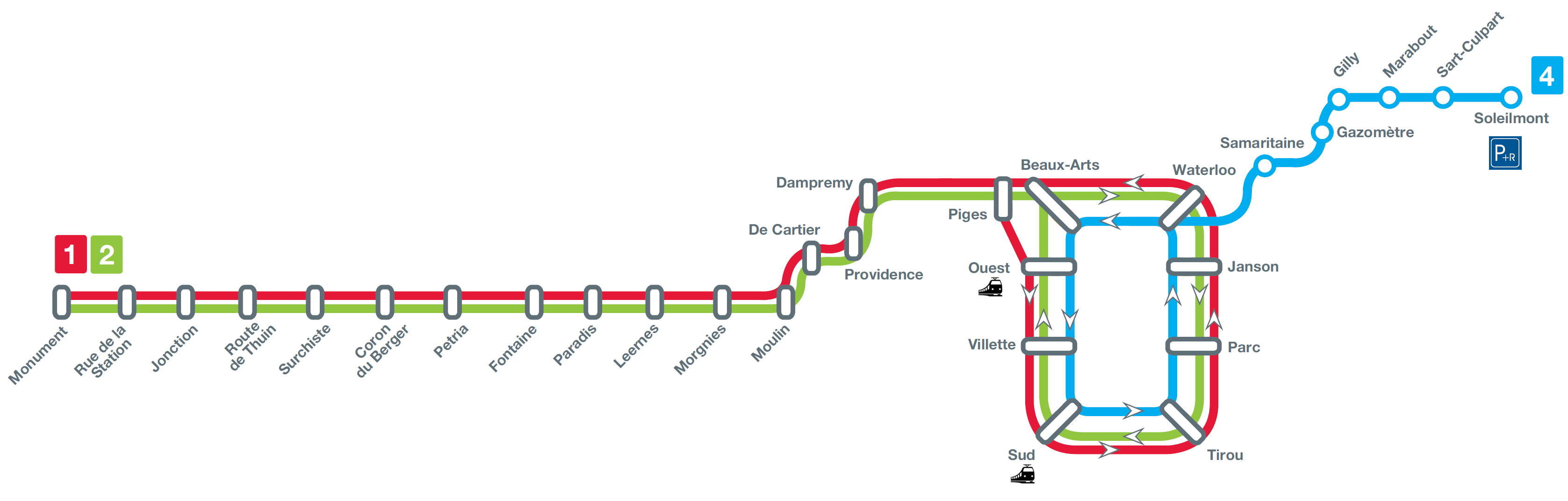 Charleroi Metro network as of February 27th 2012